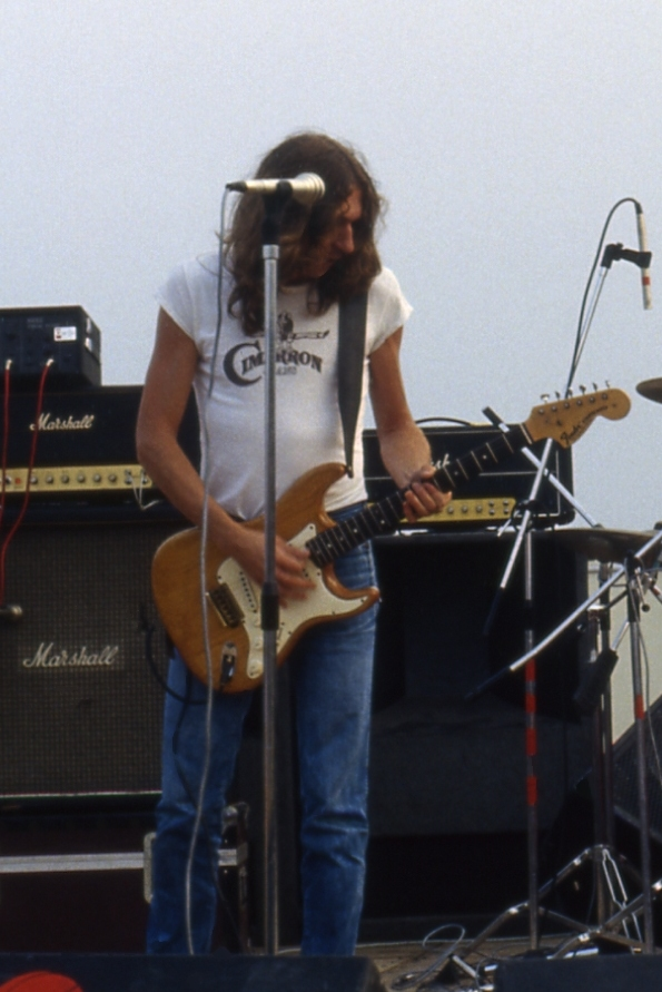 Rosendo in 1981.